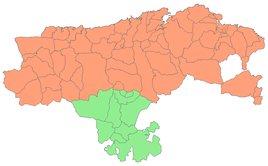 Party and Baton of Laredo (Mayorality of Burgos) Merindad of Campoo (Province of Toro).